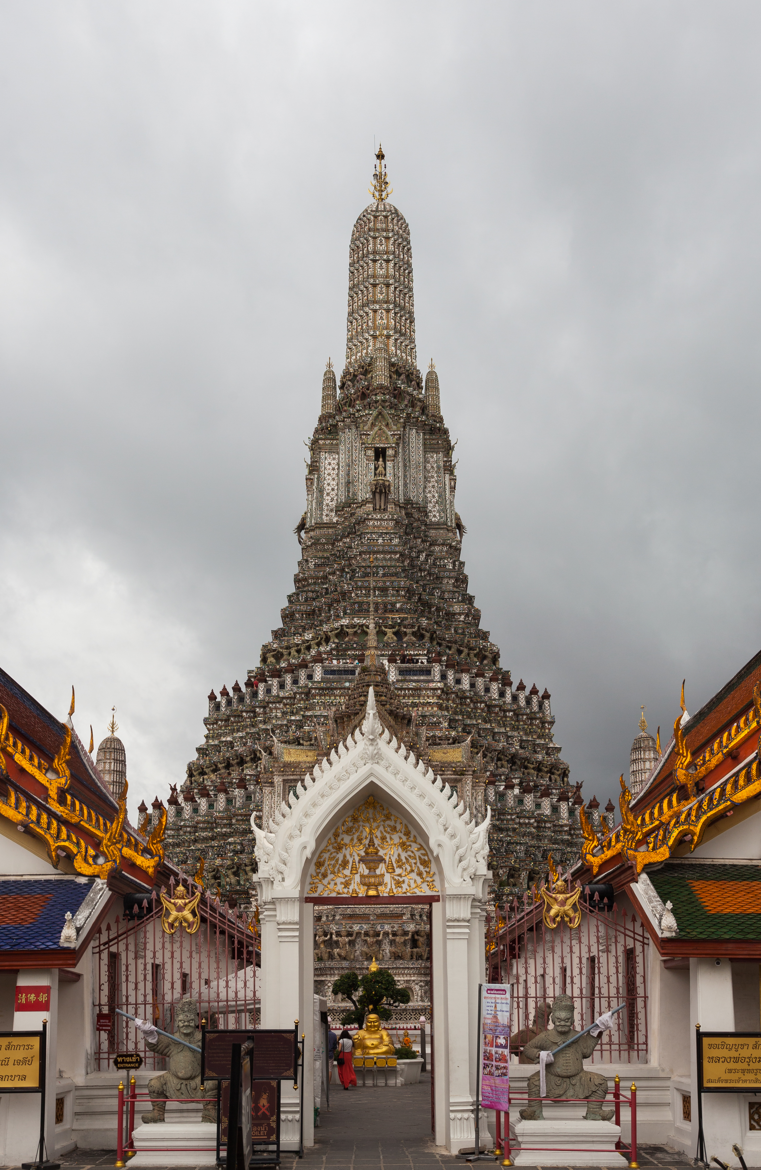 Wat Arun Temple, Bangkok, Thailand